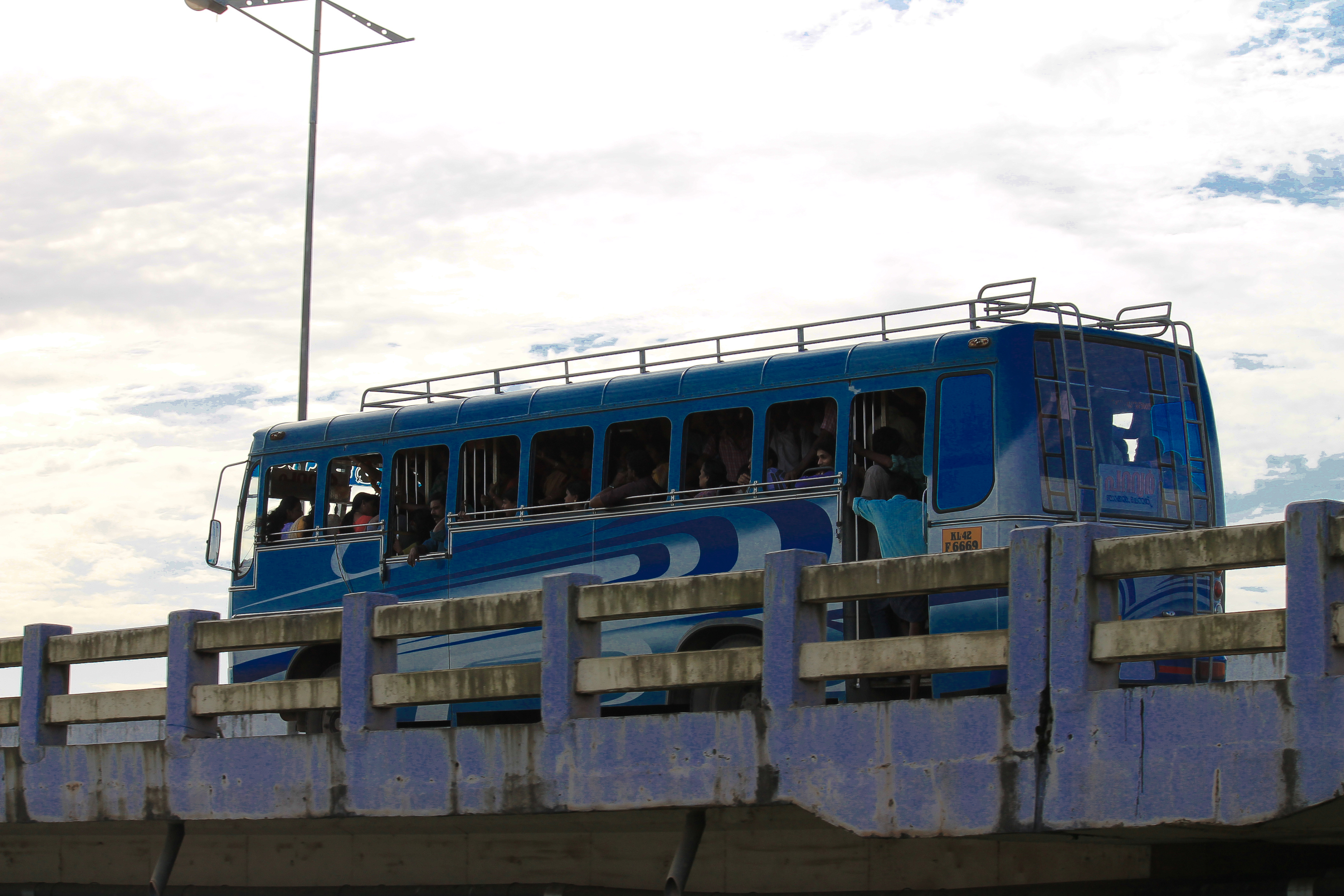 A bus full of passengers. Kochi, Kerala, India.